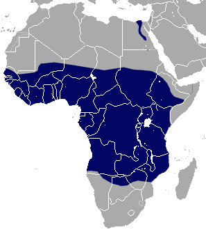 African Giant Shrew (Crocidura olivieri) range